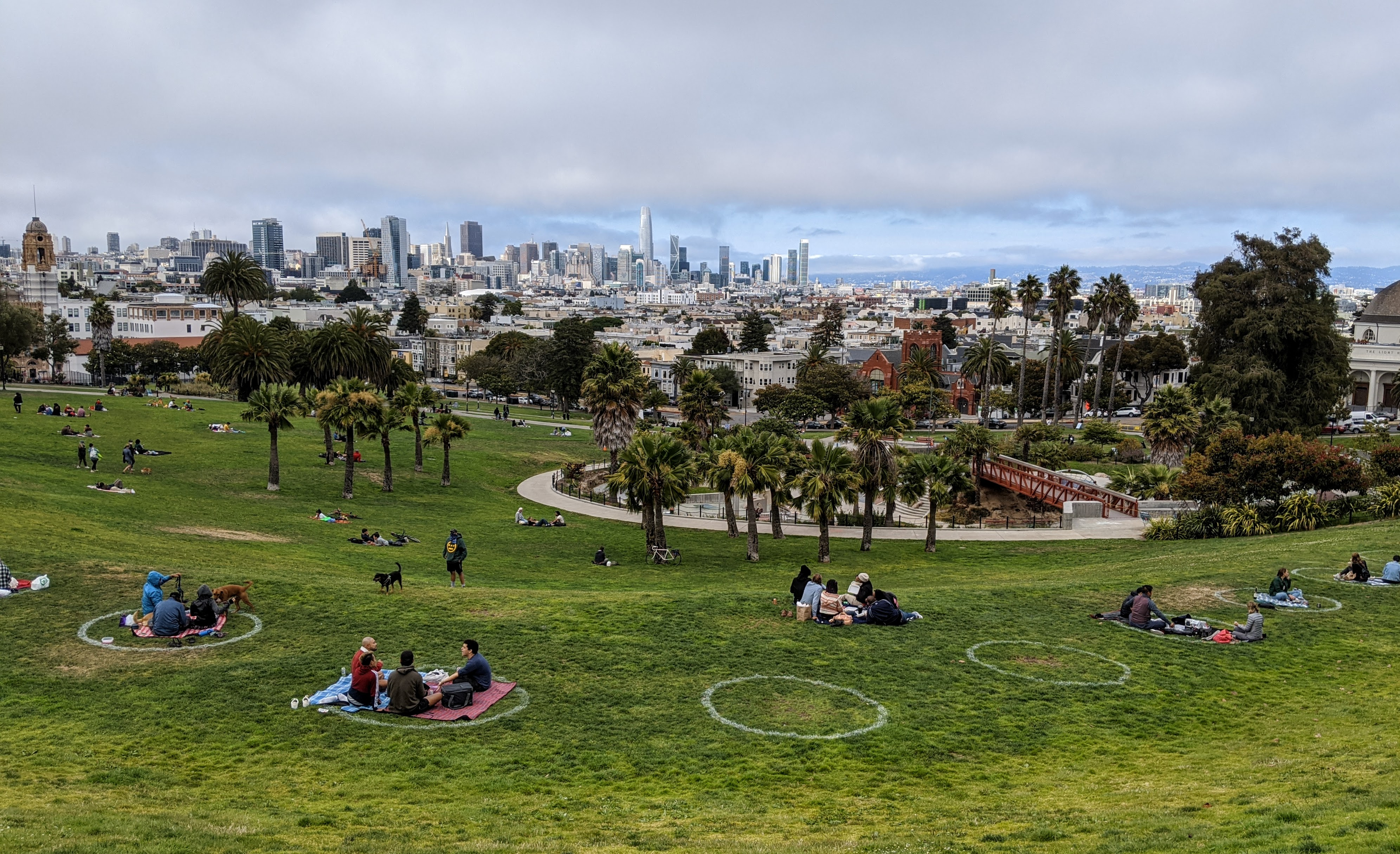 Dolores Park in 2020 with social-distancing circles painted on the grass to help small family groups stay safely away from each other